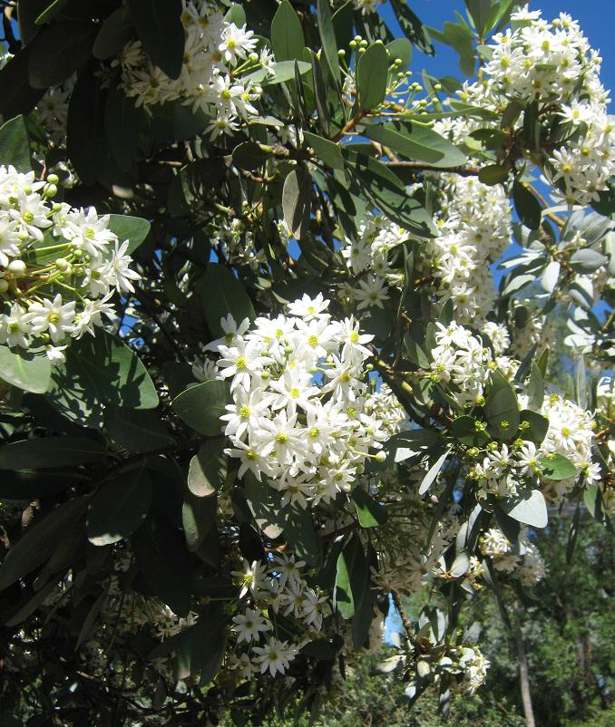 Drimys winteri, Central Chile